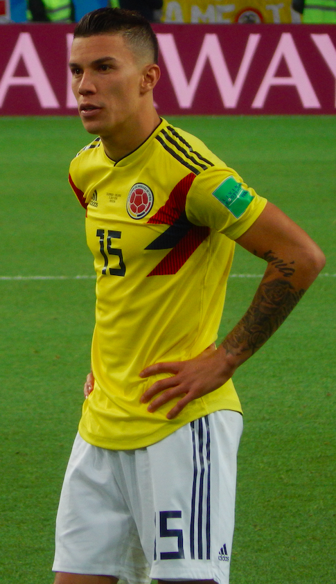 Cropped image of Mateus Uribe. This file has been extracted from another file: FWC 2018 - Round of 16 - COL v ENG - Photo 121.jpg